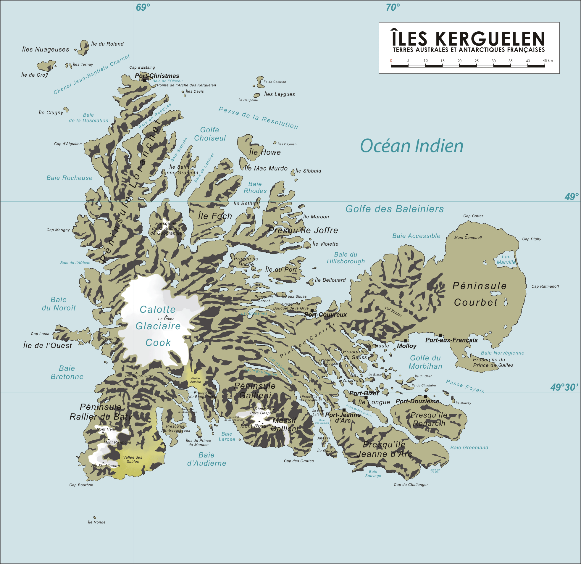 Map of the Kerguelen Islands, French Southern and Antarctic Territories